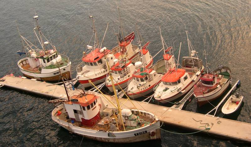 The boats of Nervei at the floating-dock, Finnmark, Norway